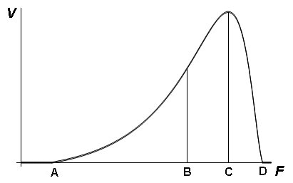 Schema of dependency between the harvest volume and the irrigation